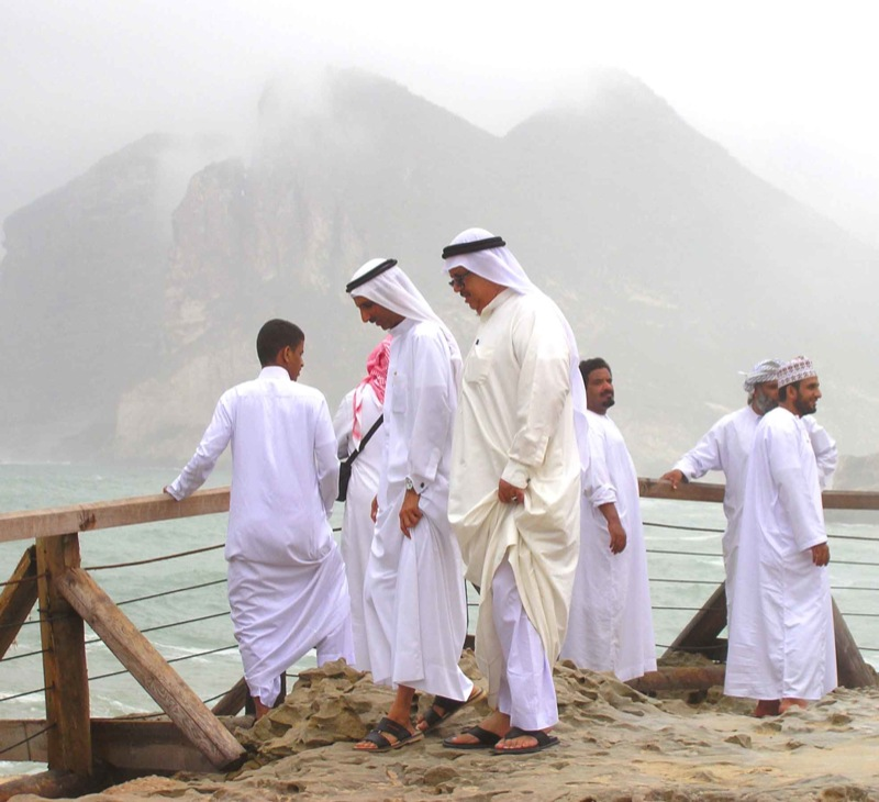 Emaratis (from UAE), Omanis and and I think a Bahraini in the picture, holidaying in the beautiful coastal district of Salalah in Oman. The difference lies in their headgear!